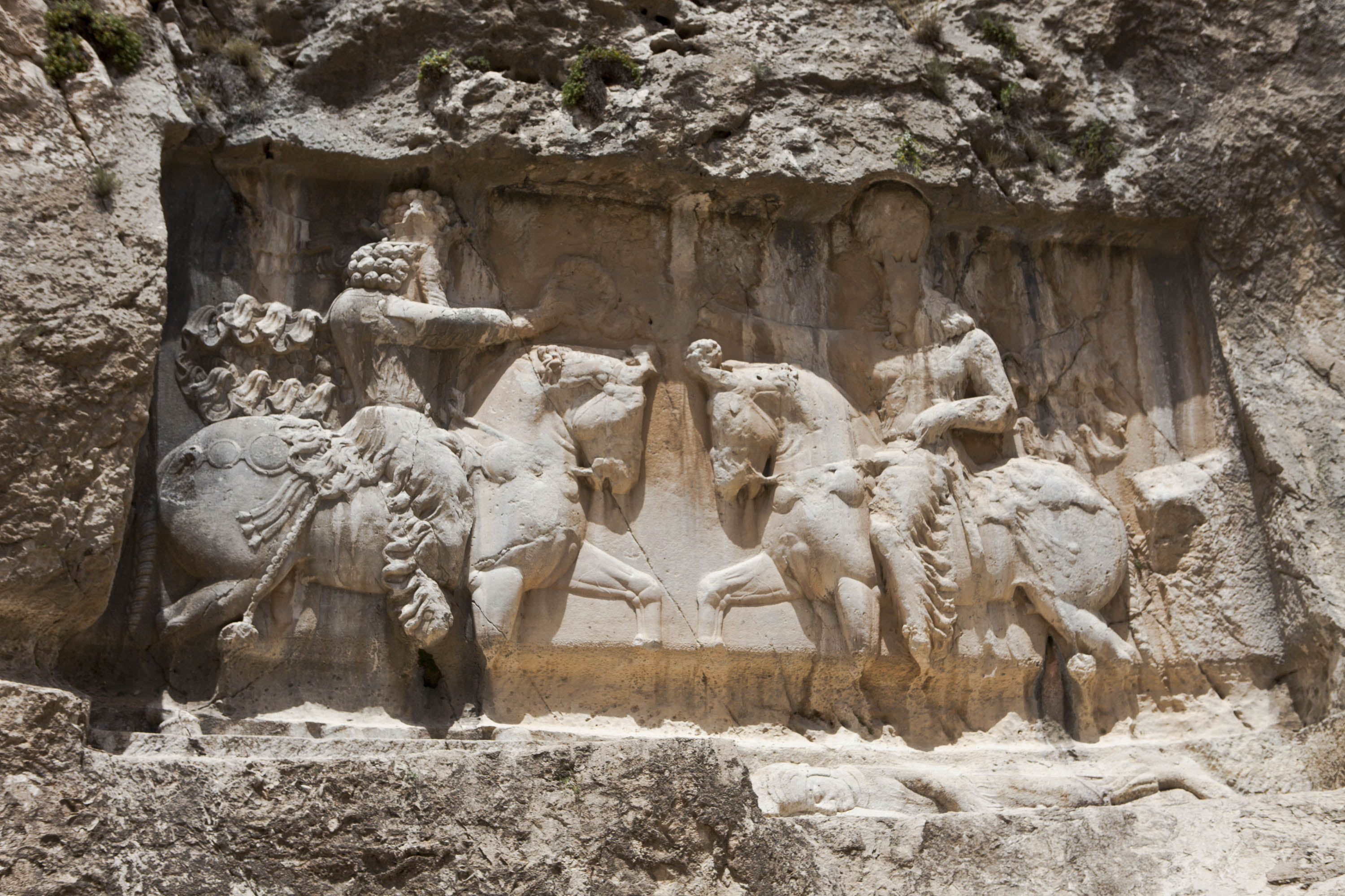 Bishapur, Iran